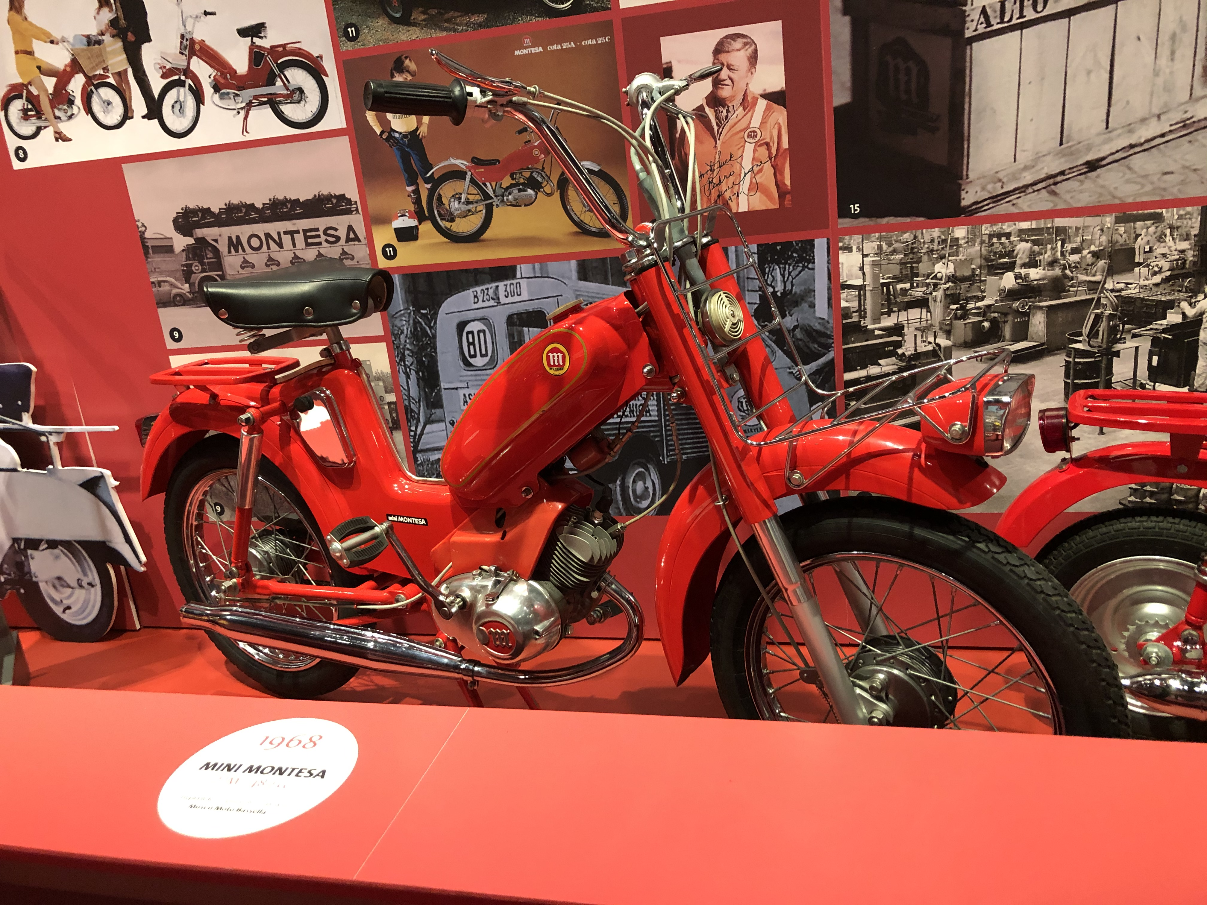 Mini Montesa (1968), Mod. 27M, 48.7 cc